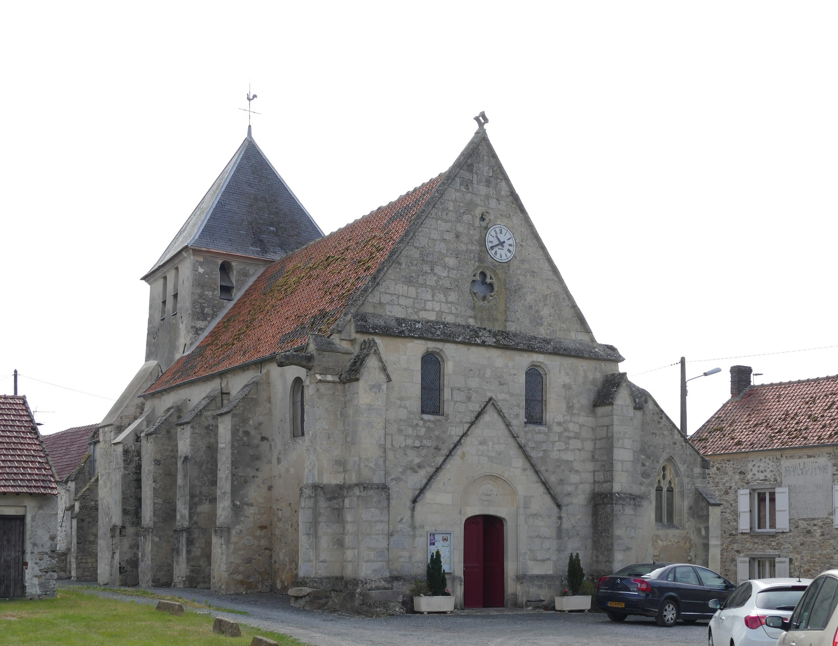 Saint-Étienne's church in Boissy-Fresnoy (Oise, Picardie, France).